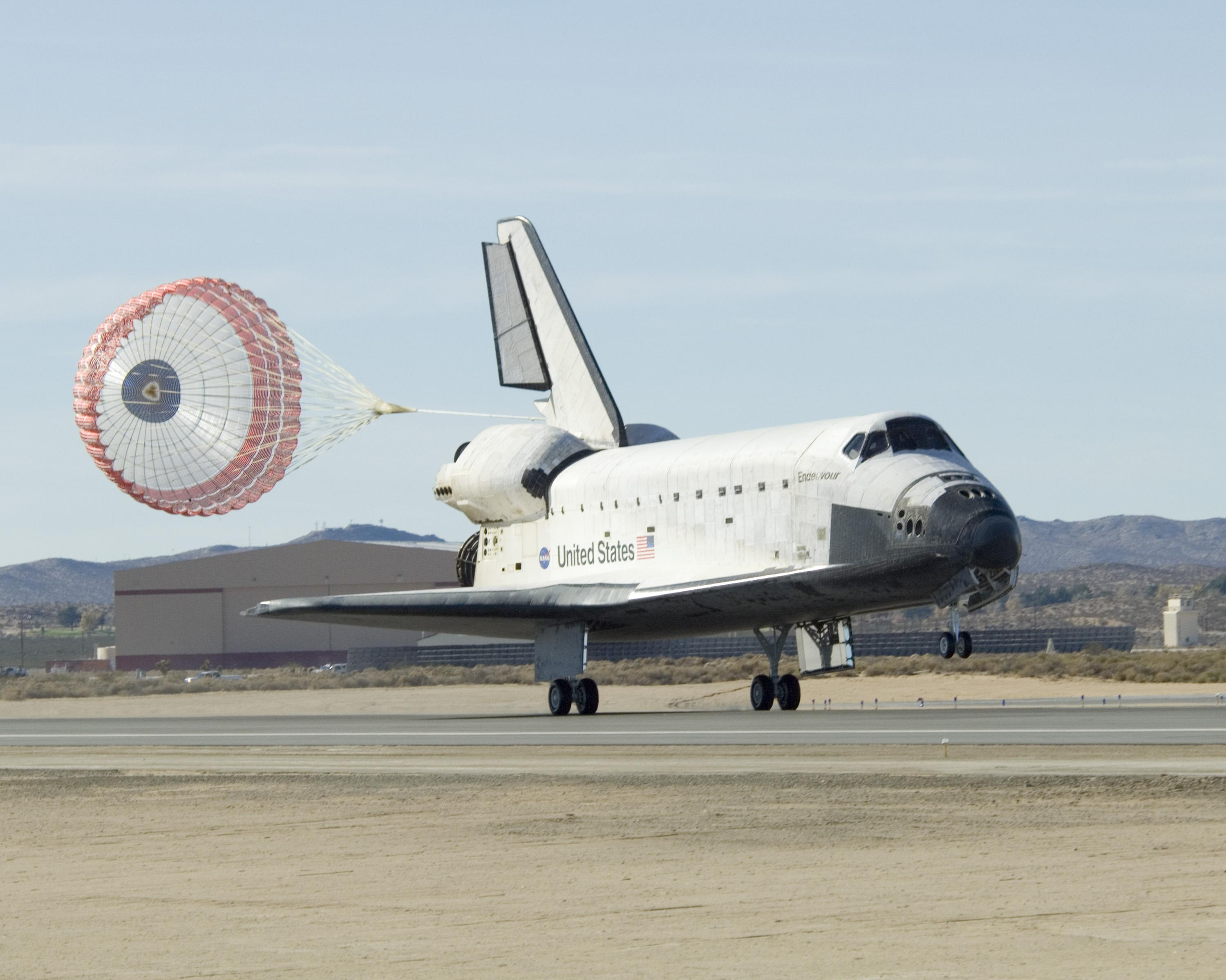 Space shuttle Endeavour touches down at Edwards Air Force Base on Nov. 30, 2008, concluding the STS-126 mission. This image captures Endeavour's drag chute as it deployed as the shuttle touched down the base's Runway 4.